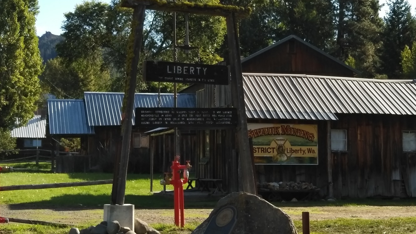 Liberty, Washington is a historic district listed in the National Register of Historic Places (#74001965)